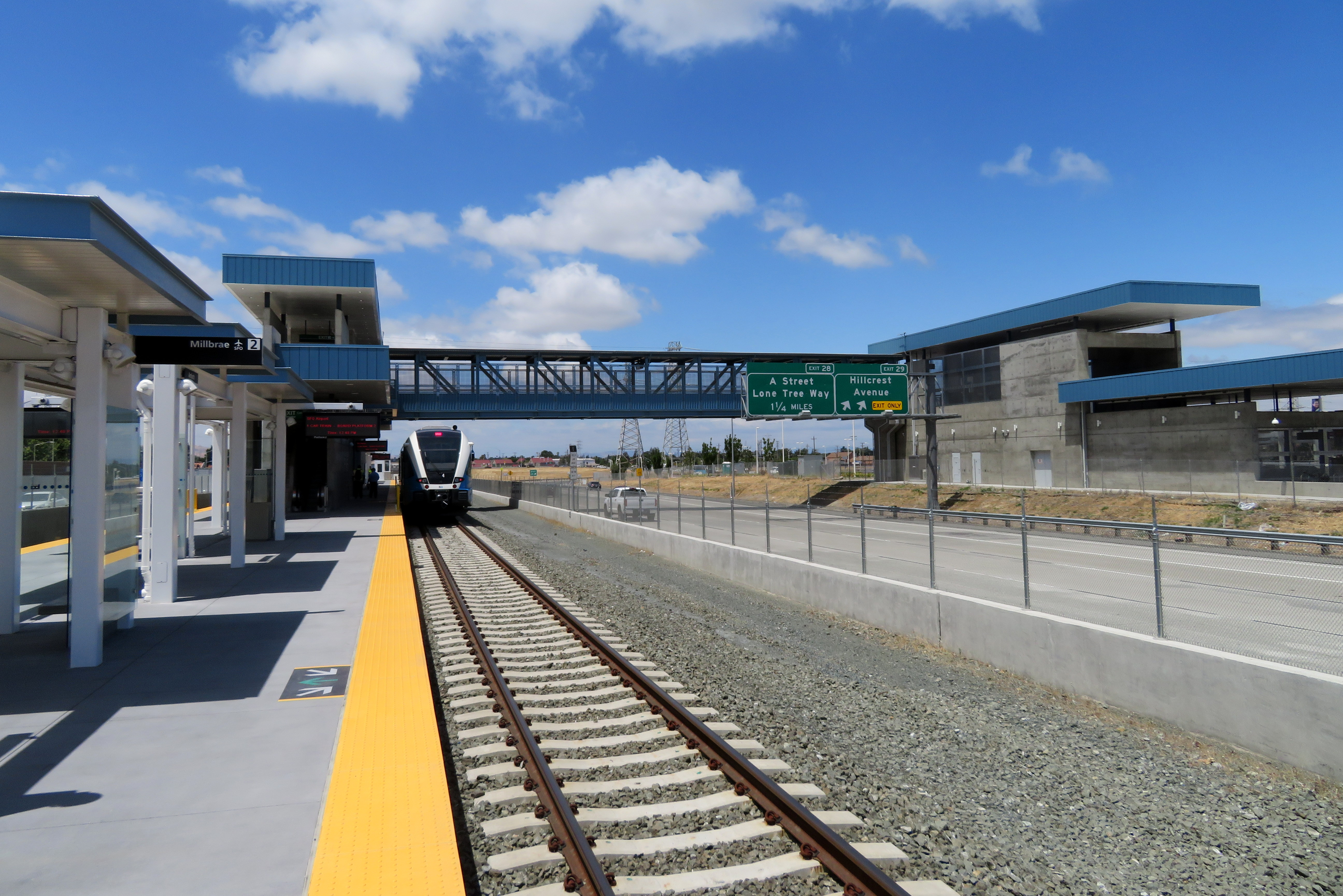 Antioch station on the first day of eBART service in May 2018. A train is laying over at the platform.